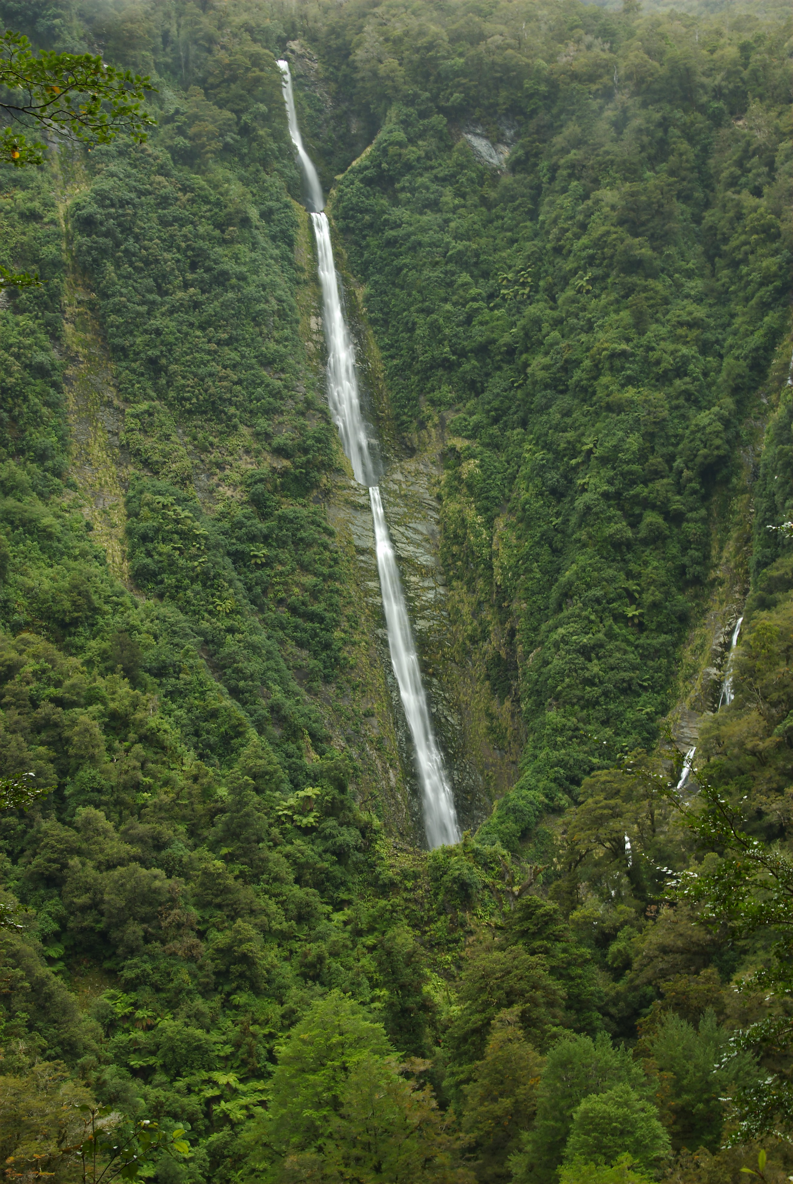 Humboldt Falls in Fiordland, New Zealand from the falls lookout walk at the end of the Lower Hollyford road